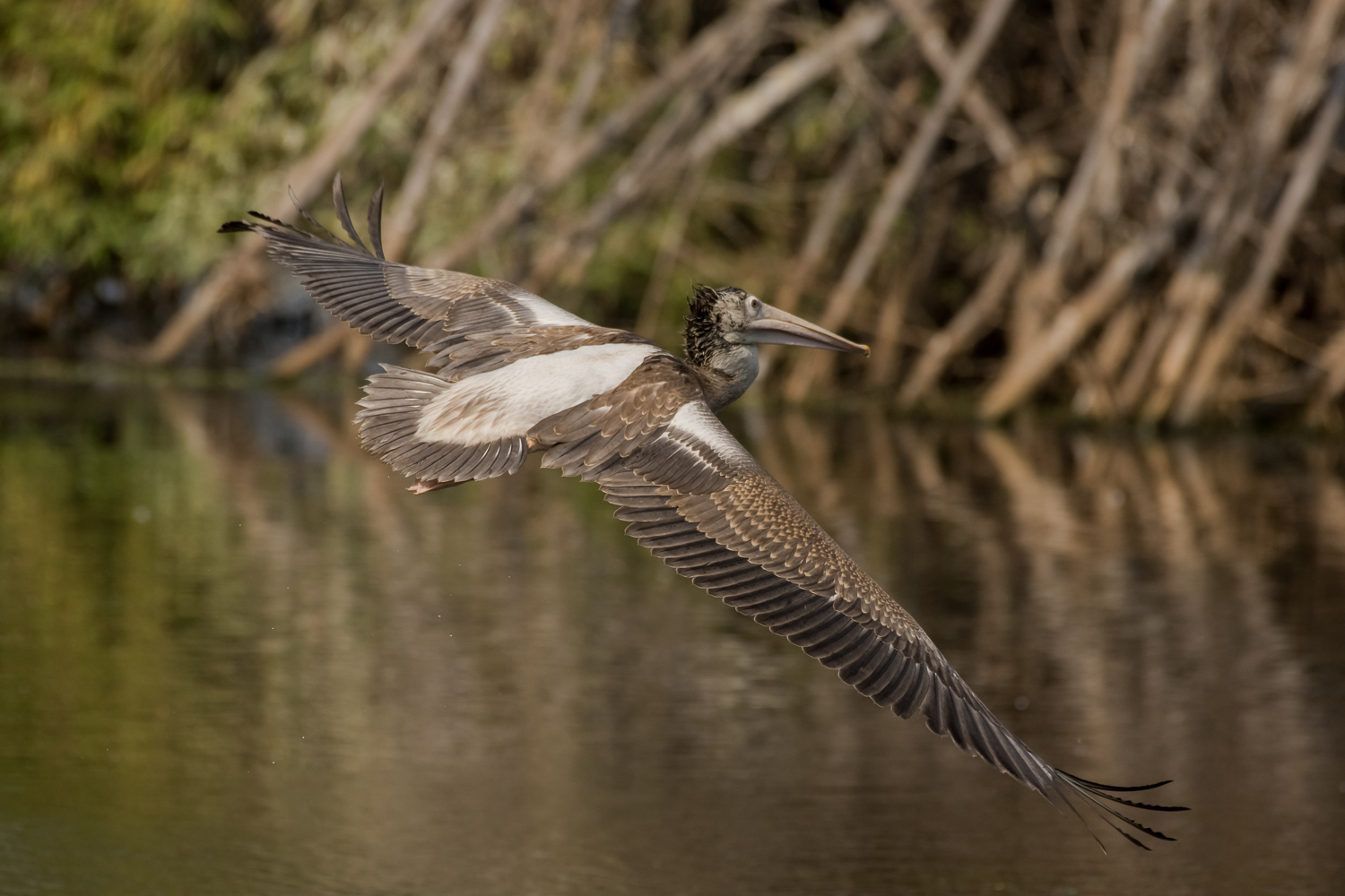 pelican in flight